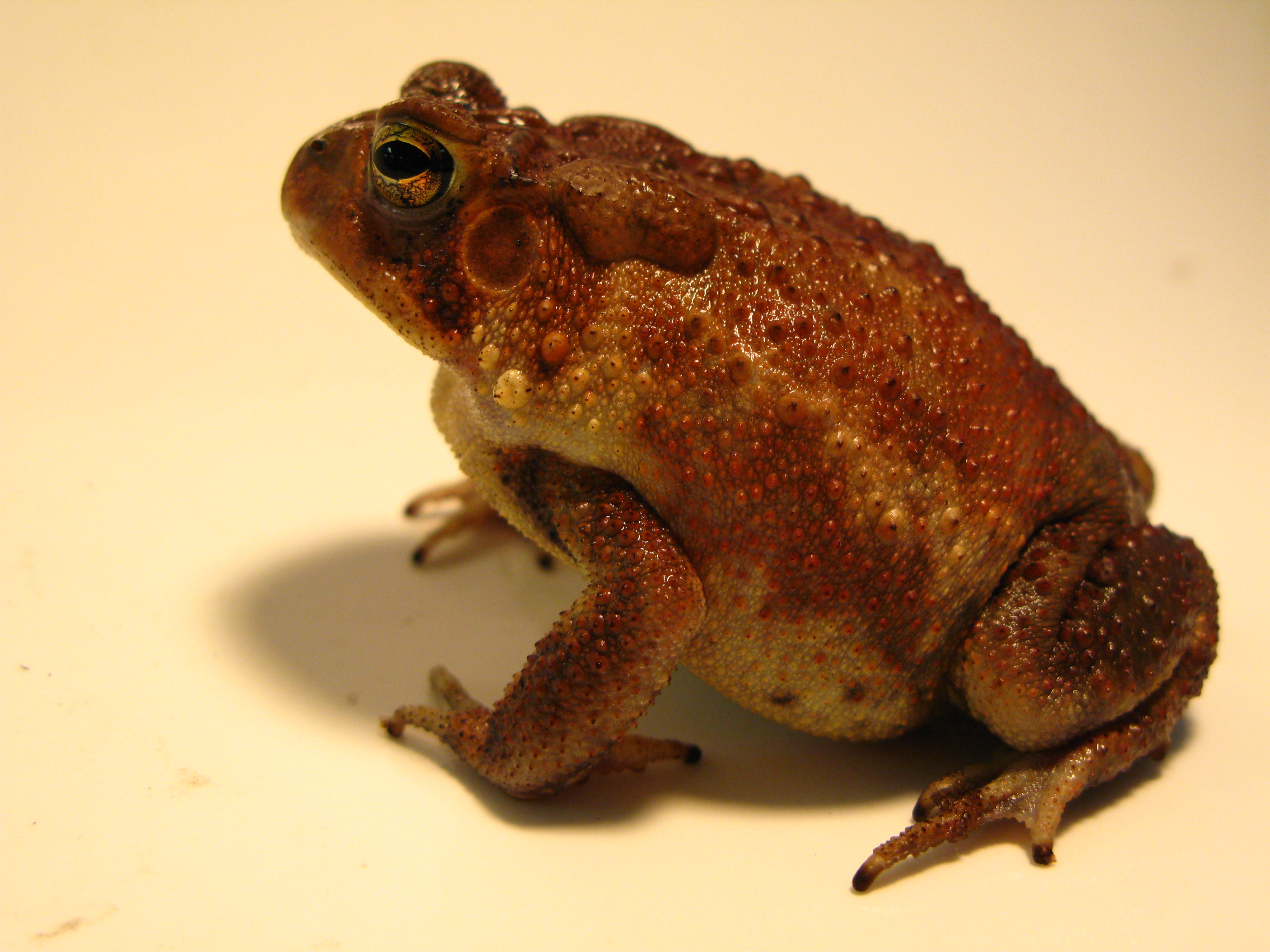 Southern Toad from Covington, GA, USA.